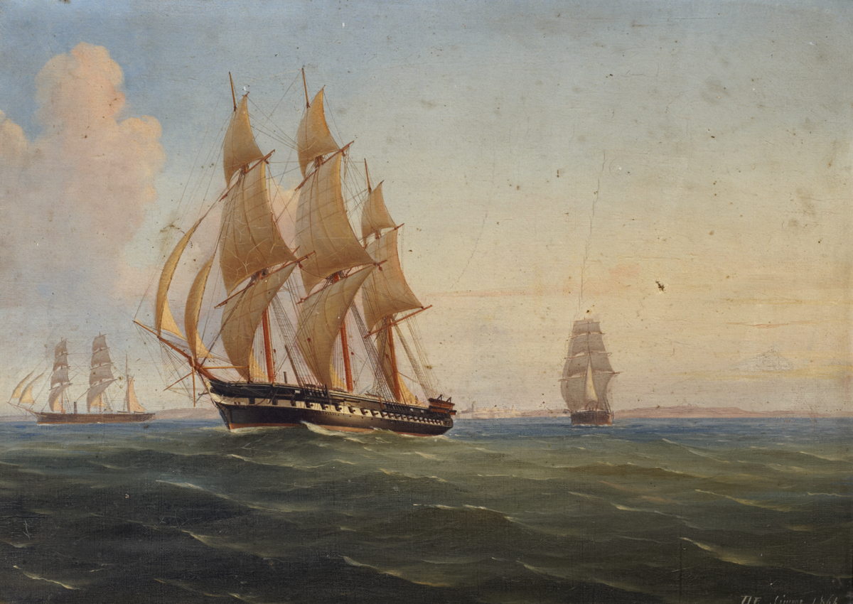 HMS 'Orlando'; National Maritime Museum